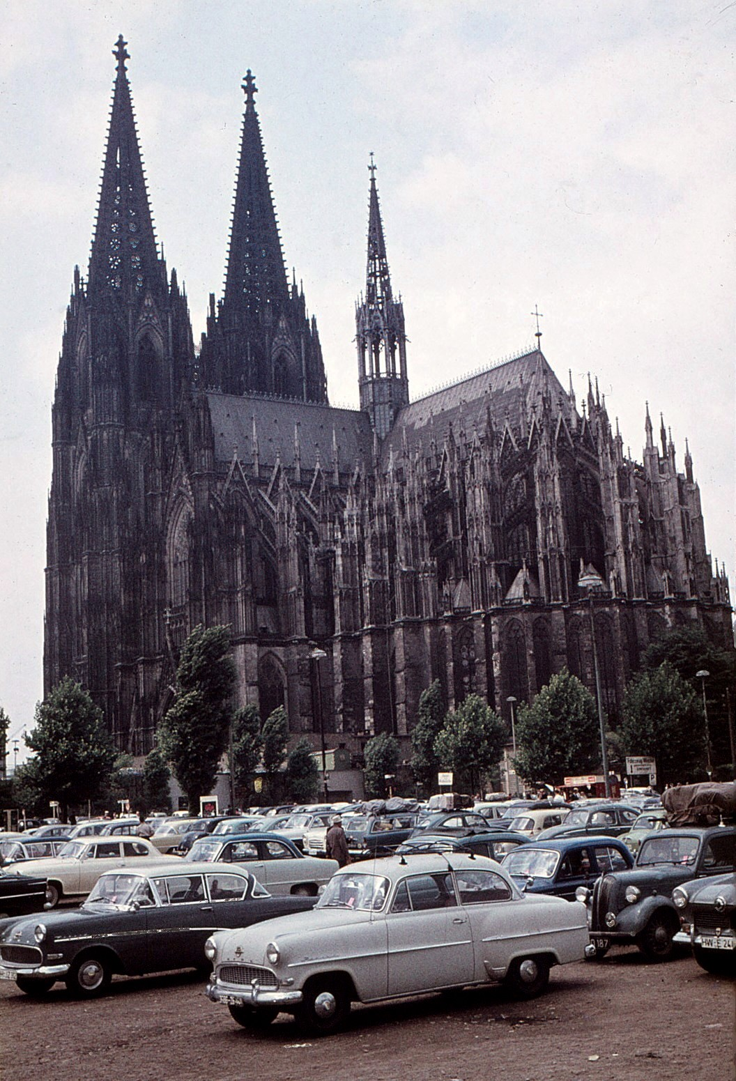 Kölner Dom - Cologne Cathedral in the early 1960s